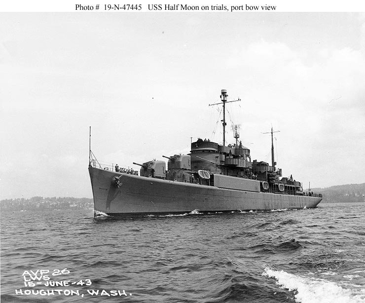 United States Navy seaplane tender USS Half Moon (AVP-26) off Houghton, Washington on her commissioning day